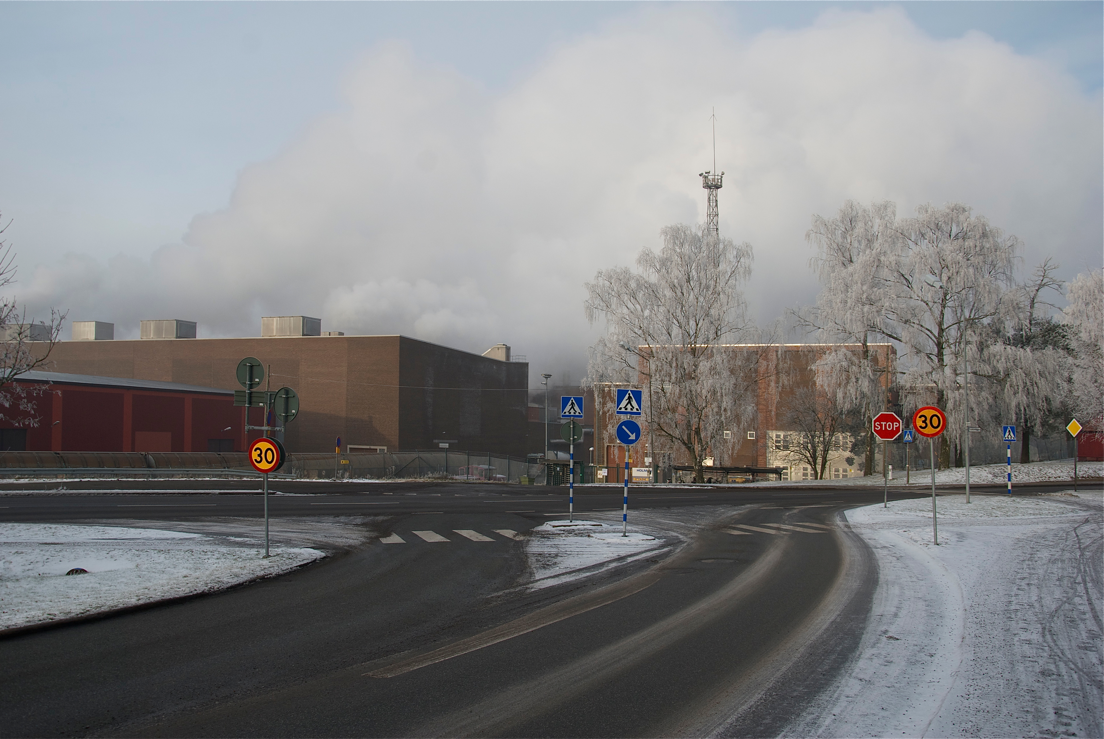 Hallsta Paper Mill